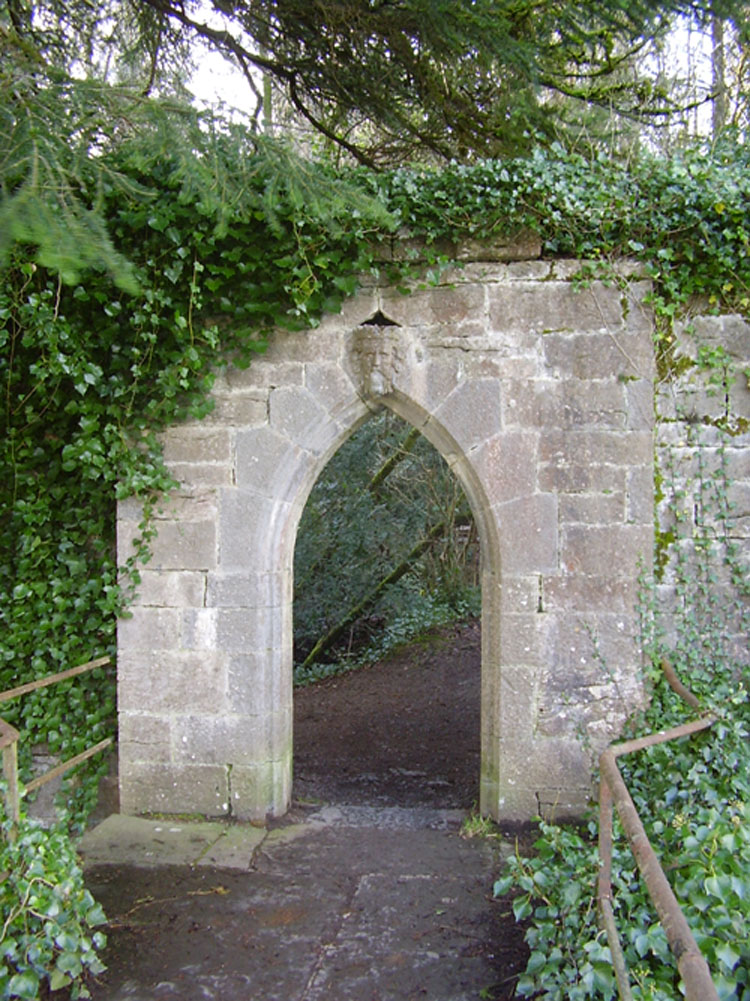 Doorway in the grounds of Cong Abbey with stone carving of High King Rory O'Connor